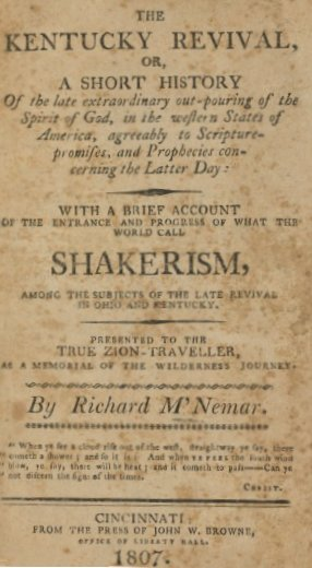 "Kentucky Revival" book cover 1808